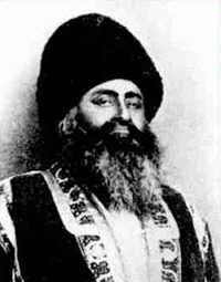 Loynab Shirdel Khan, governor of Afghan Turkistan before his death in 1878